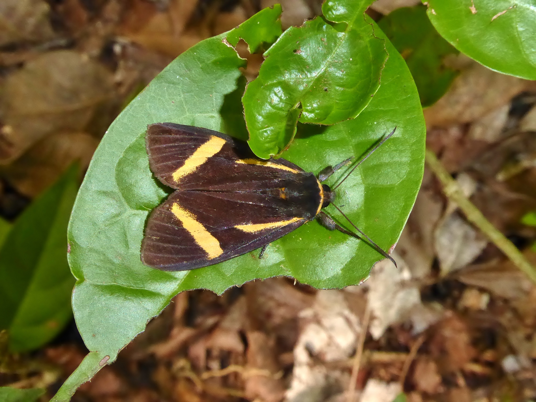 Seirocastnia tribuna. Species of insect.